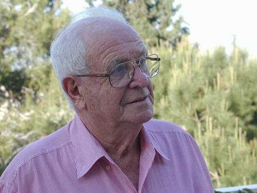 Photo of אליעזר רפאלי